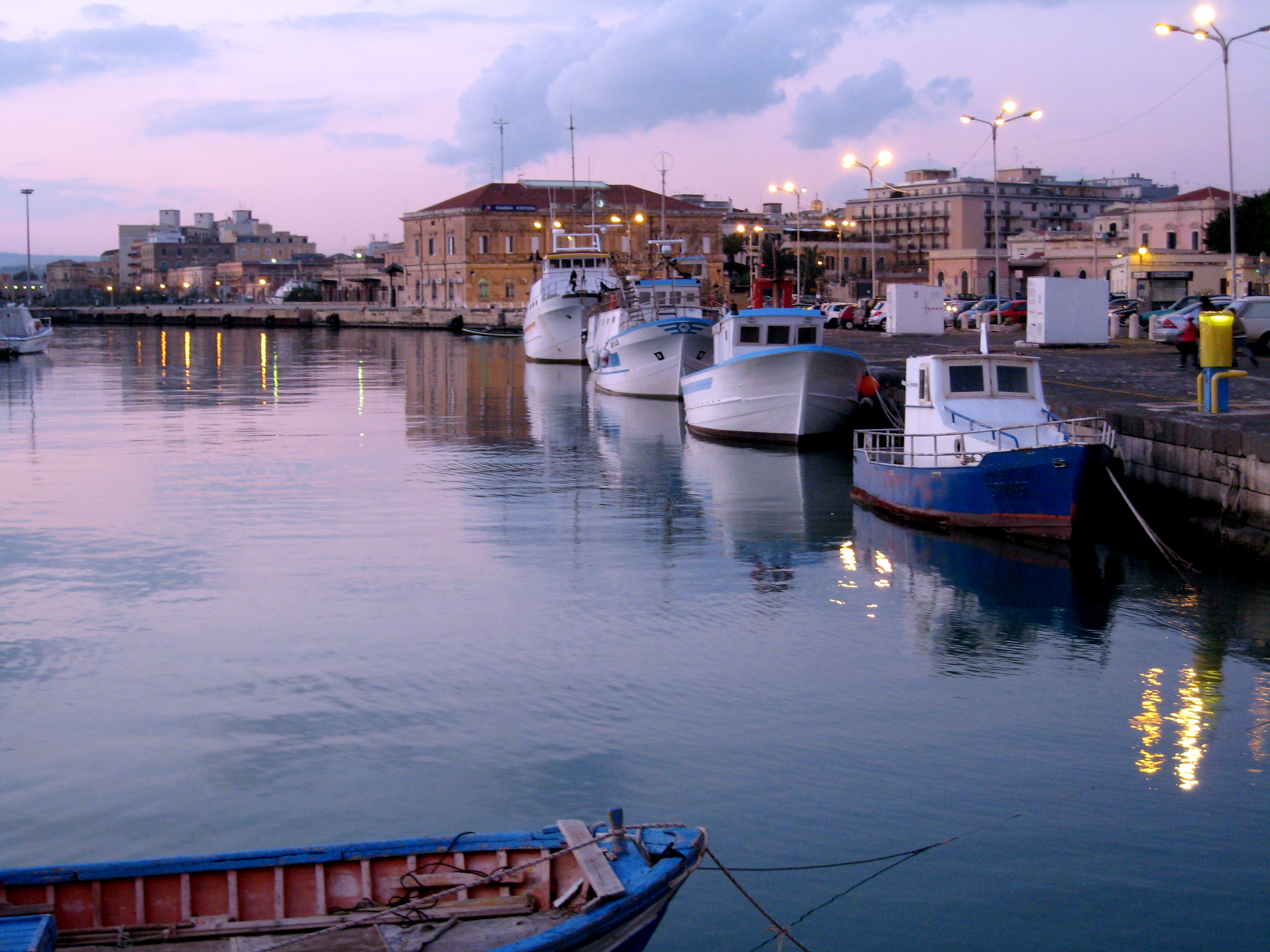 Harbor of Syracuse